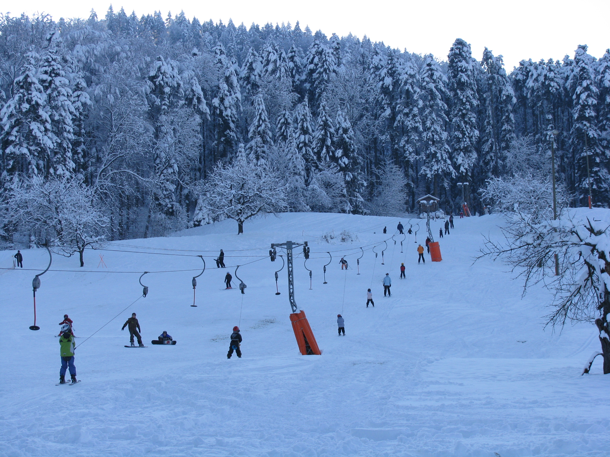 Winter sport area Föhrlimatt in Wegenstetten, Aargau, Switzerland